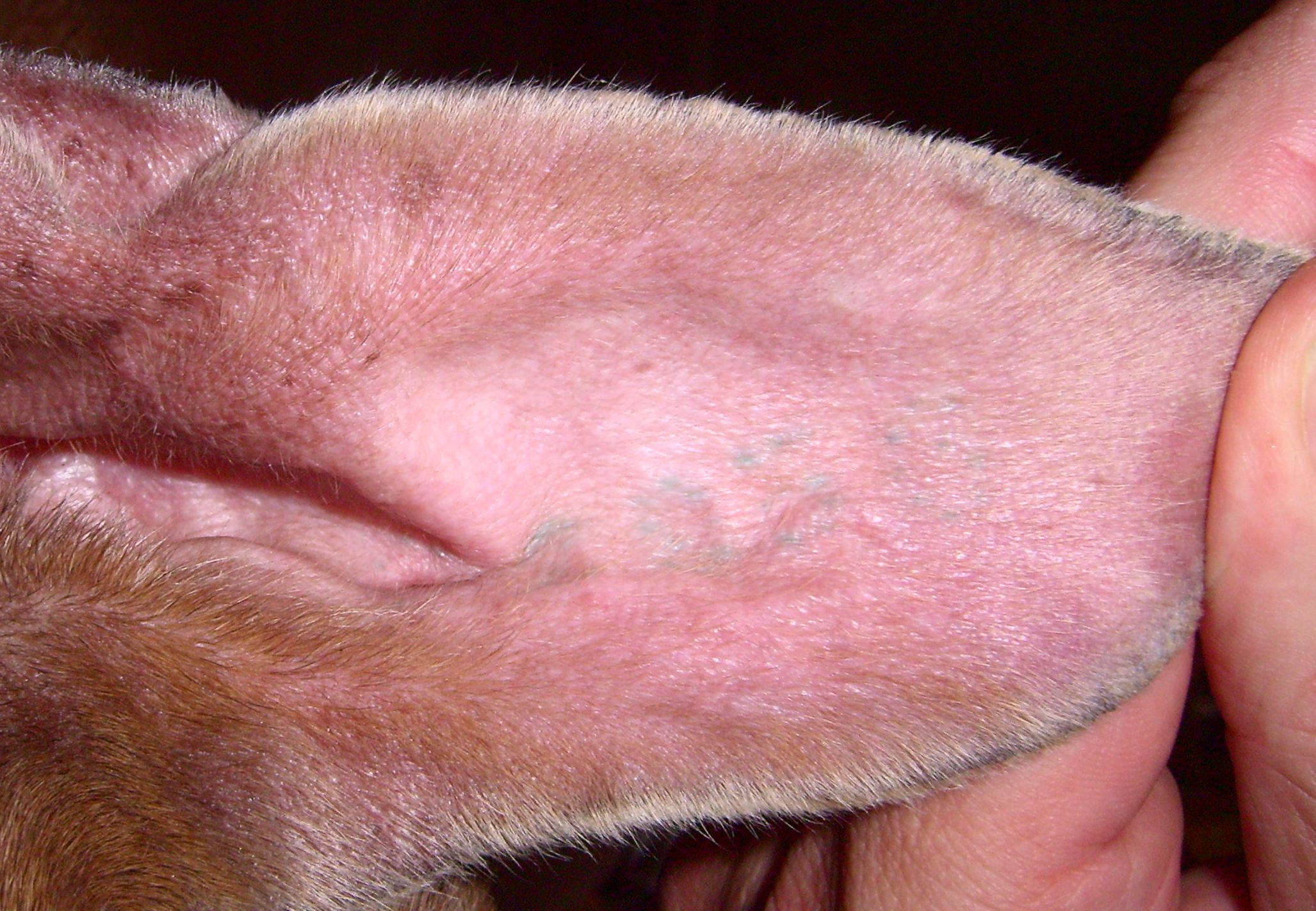 dog's ear with tattoo (unreadable, 10 year old American Staffordshire Terrier) Aymar aru: Anuna nayri